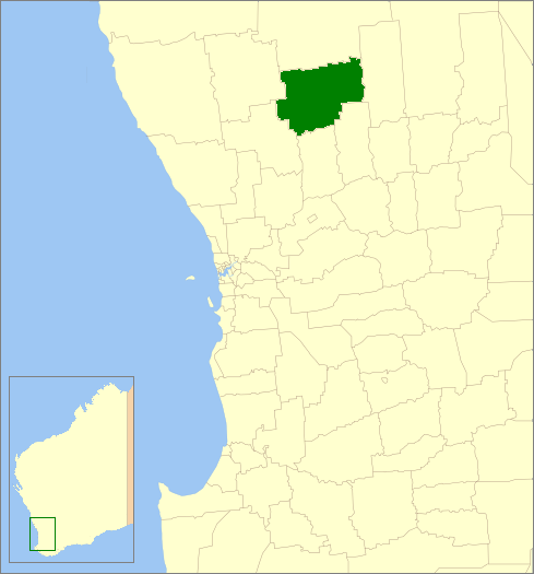 Description=Location of the Local Government Area in Western Australia